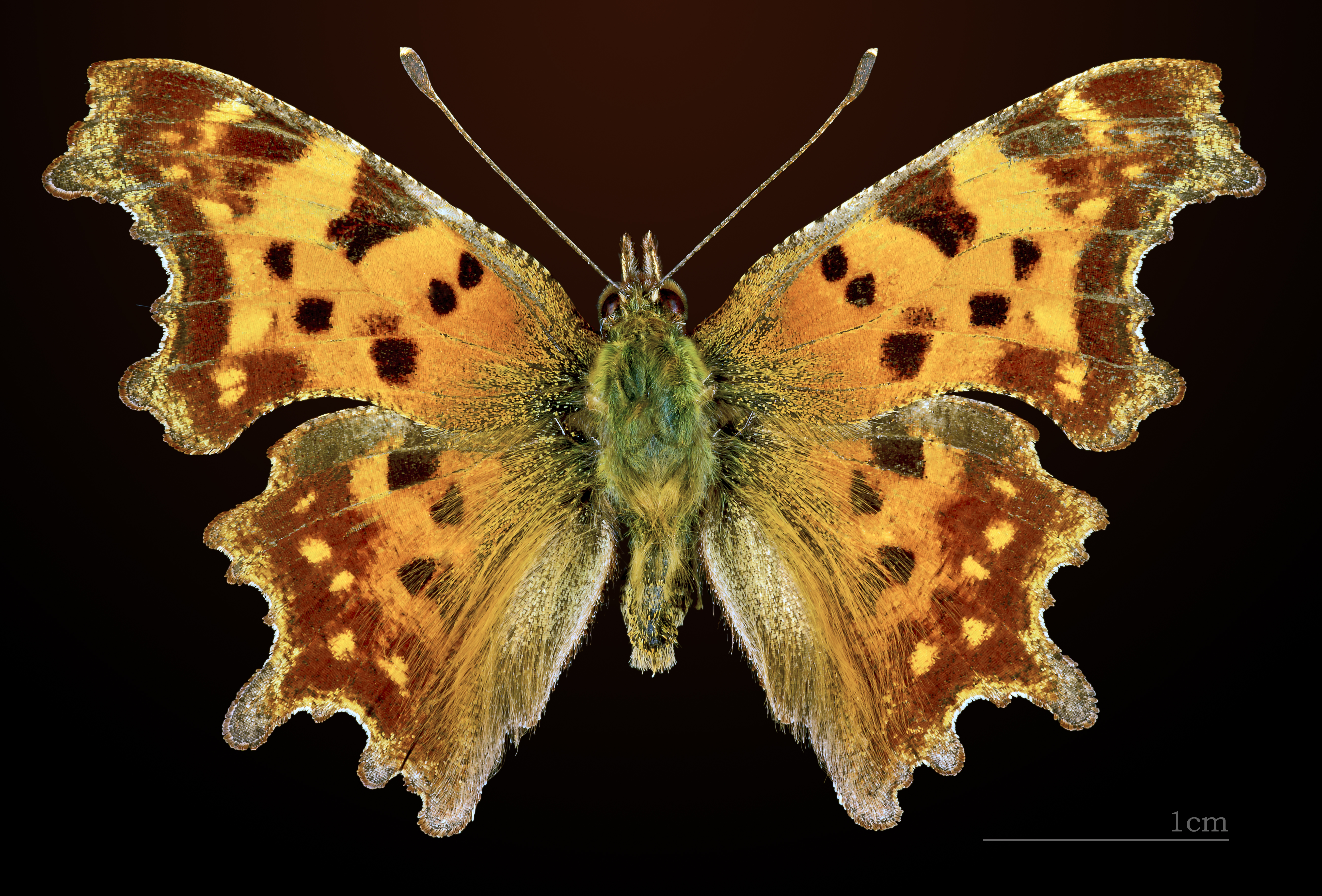 Comma - ♂ Dorsal side Locality: Grisolles, Tarn et Garonne, France